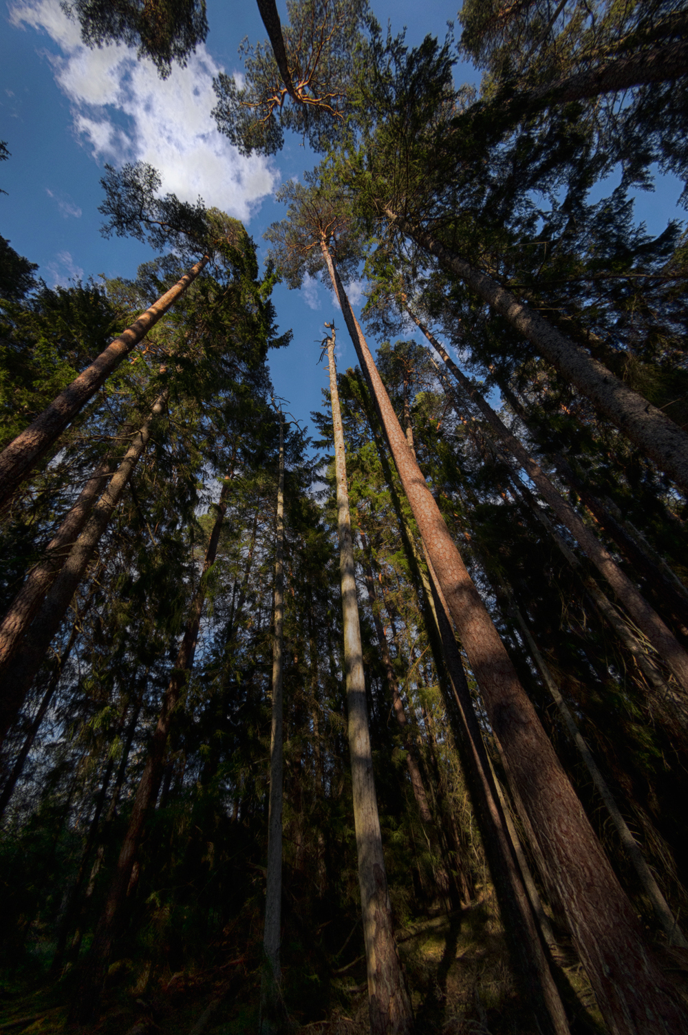 Erikslund. In the primaeval forest trees fight to reach light. Some dead ones still stand tall.